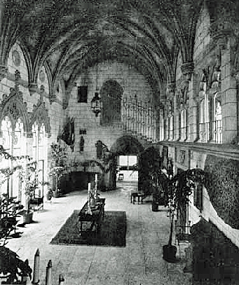 The Great Hall in La Ronda — estate and mansion formerly located in Bryn Mawr, Pennsylvania. Built in 1929, designed by Addison Mizner. Demolished in 2009.